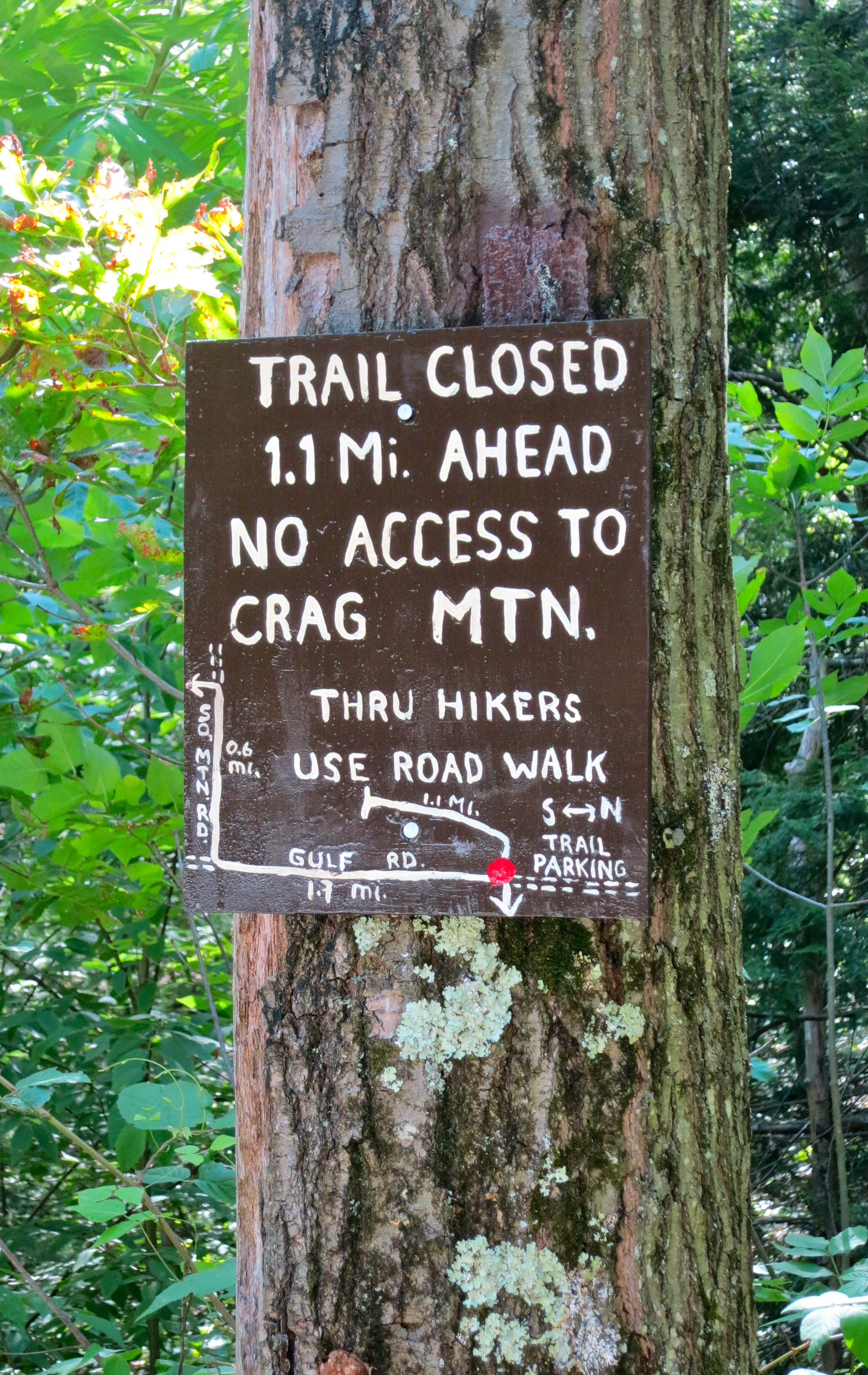 One ofr many 'road walk' signs